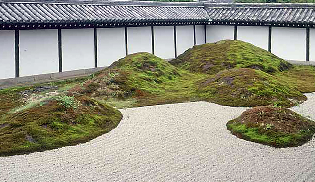 A Japanese garden in the karesansui style at Tofukuji in Kyoto, Japan.